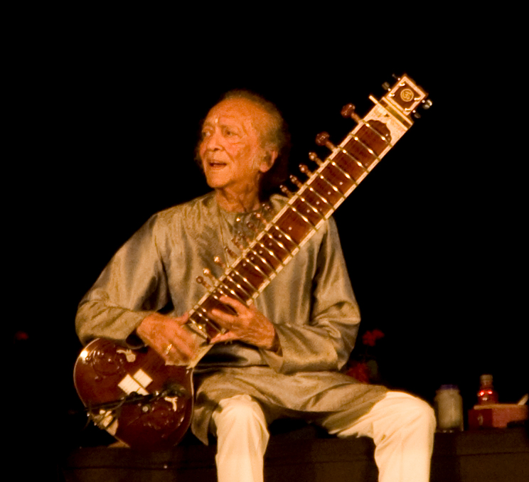 Ravi Shankar performs in Delhi with his daughter Anoushka in March 2009